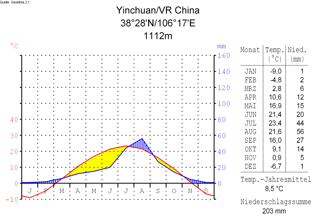 climate chart in the format by Walter and Lieth, metric, °Celsisus and millimeters, made with Geoklima 2.1